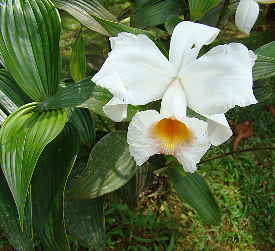 A short-lived flower of a terrestrial orchid found in Costa Rica and Panama. Photo from the San Blas Mountains of northeastern Panama. In context at